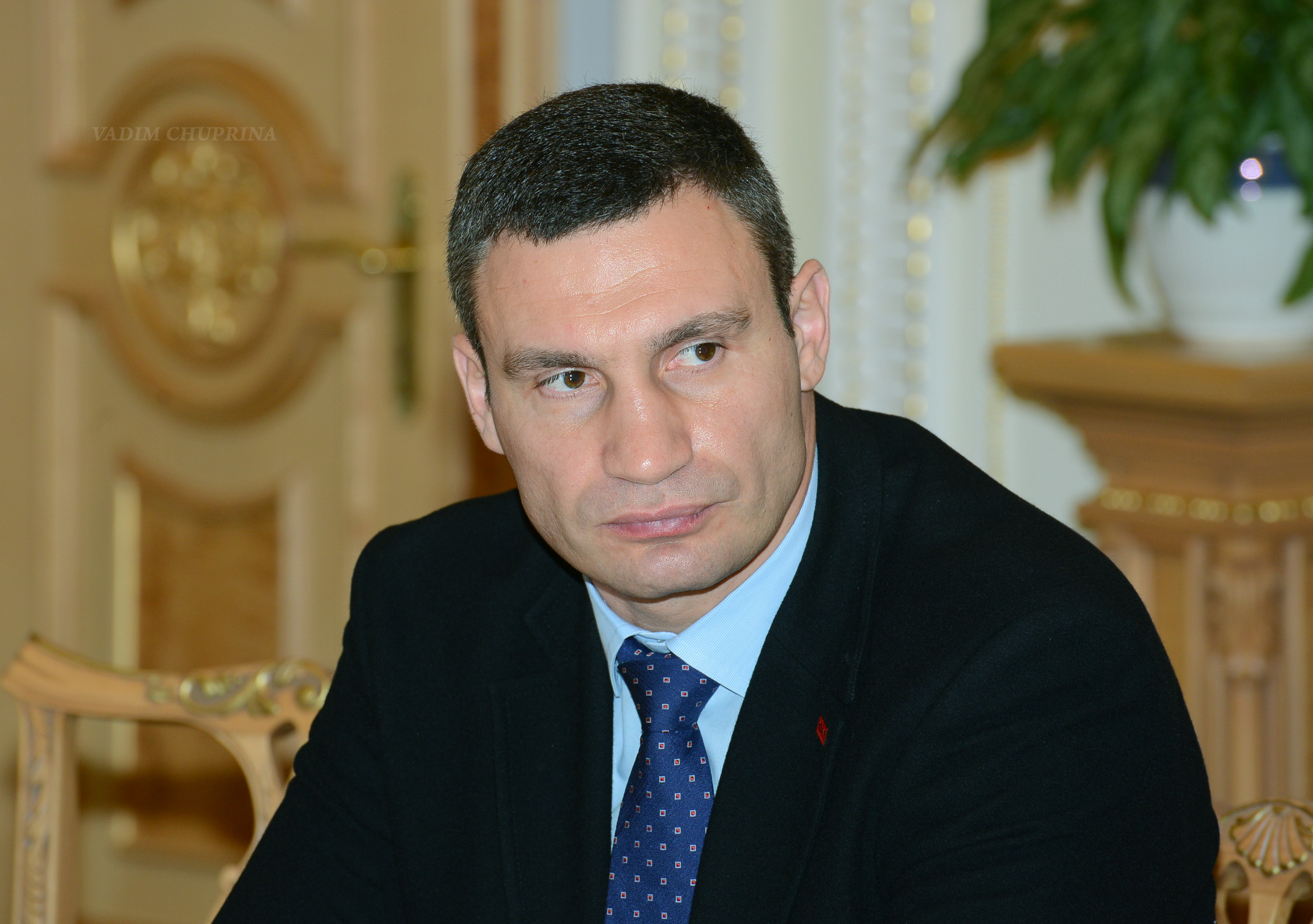 Ukrainian politicians VADIM CHUPRINA